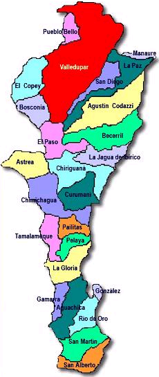 Map of Cesar, a department of Colombia. The map shows the municipalities.